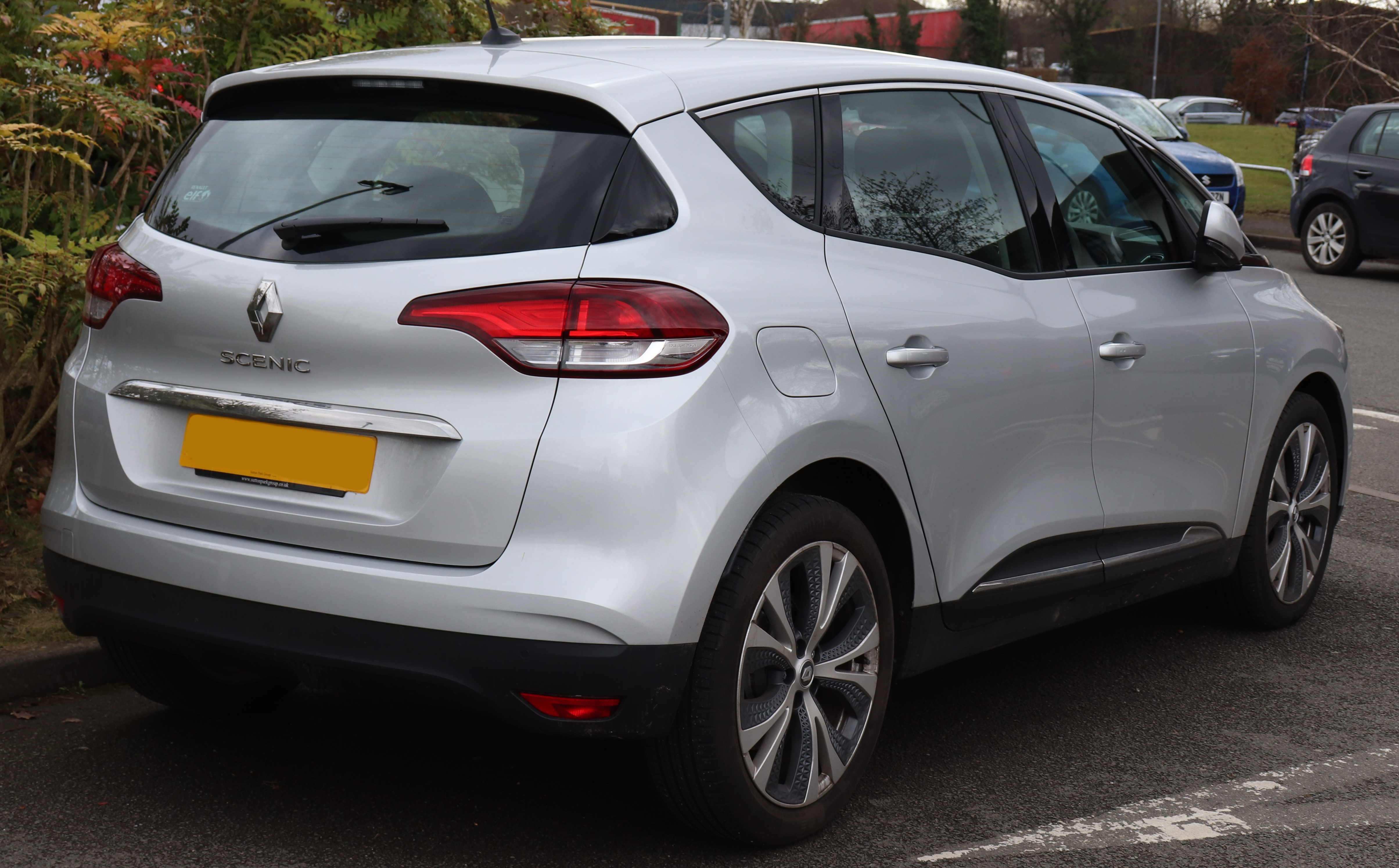 2017 Renault Scenic Dynamique NAV DCi 1.5 Rear Taken in Leamington Spa